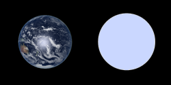 Size of Gliese 915 in comparision with Earth.